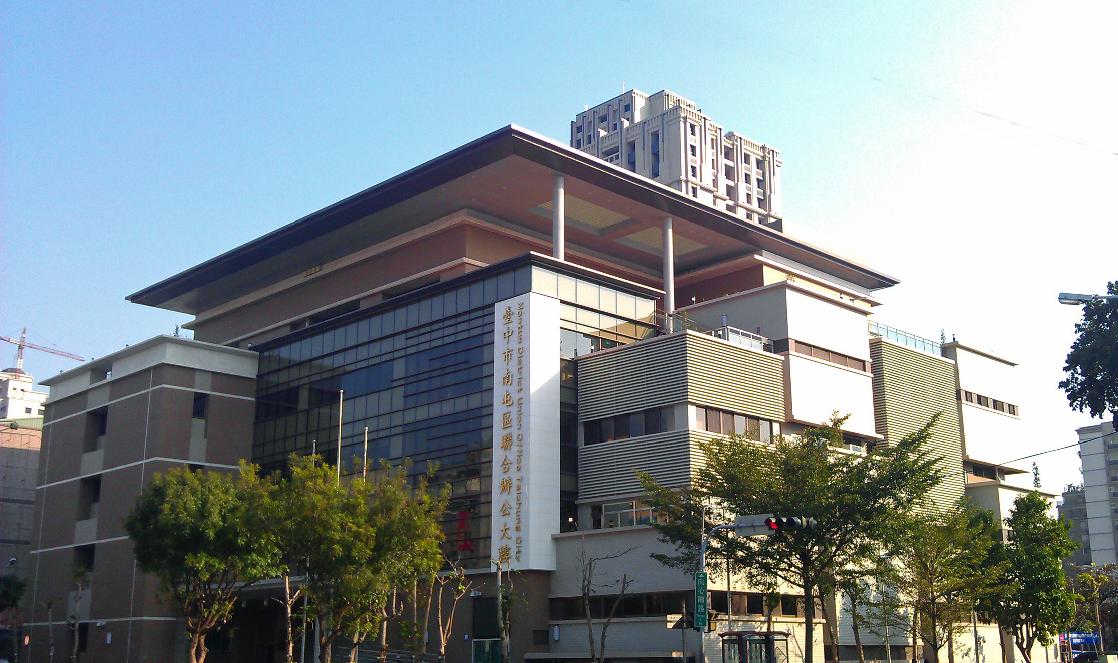 Nantun District Union Office, Taichung City.